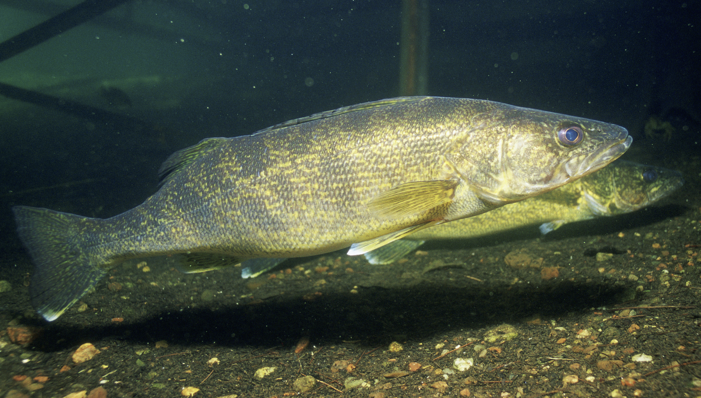 Walleye (Sander vitreus, formerly Stizostedion vitreum)